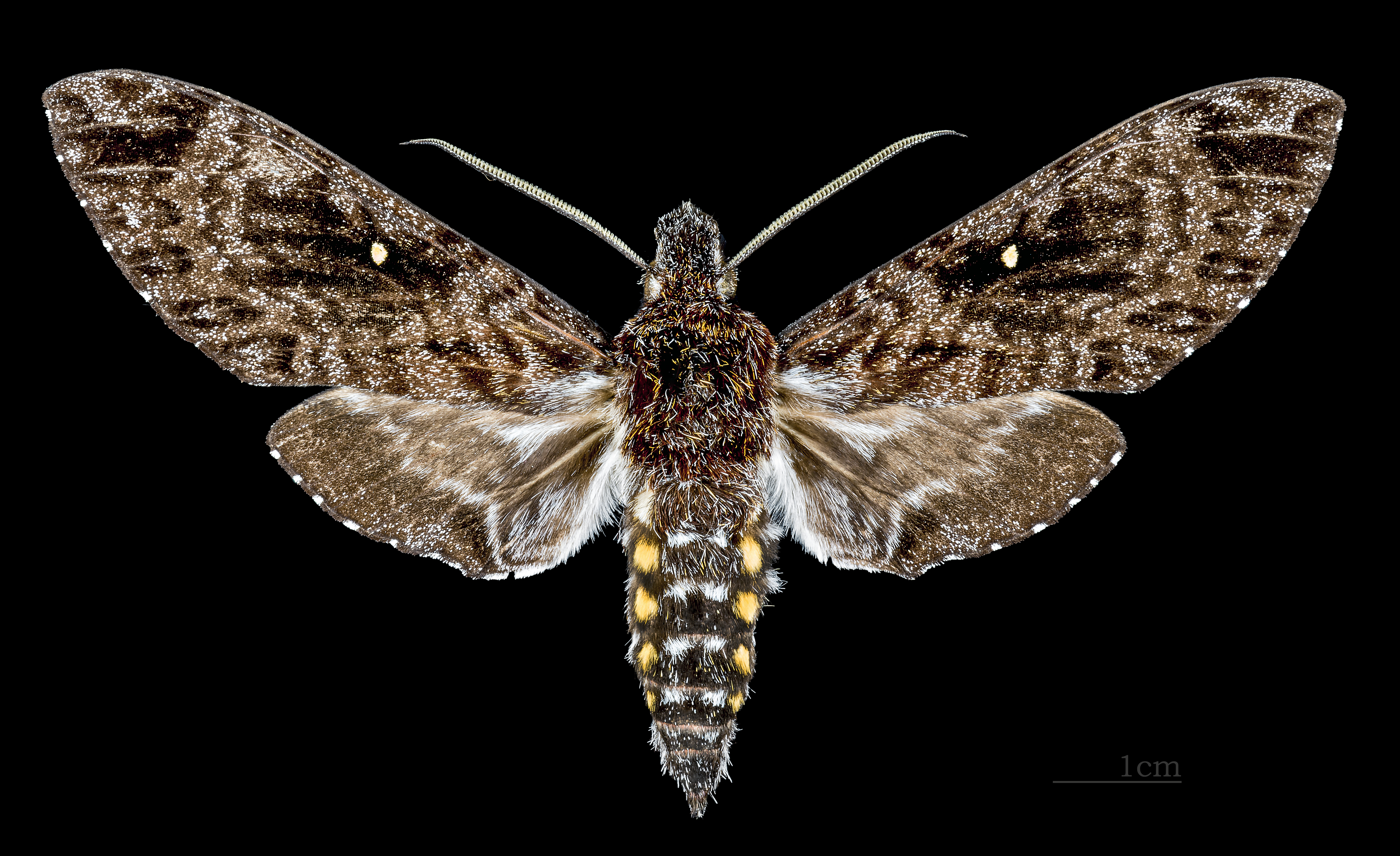 Euryglottis albostigmata - Dorsal side Collection of the Mathematician Laurent Schwartz